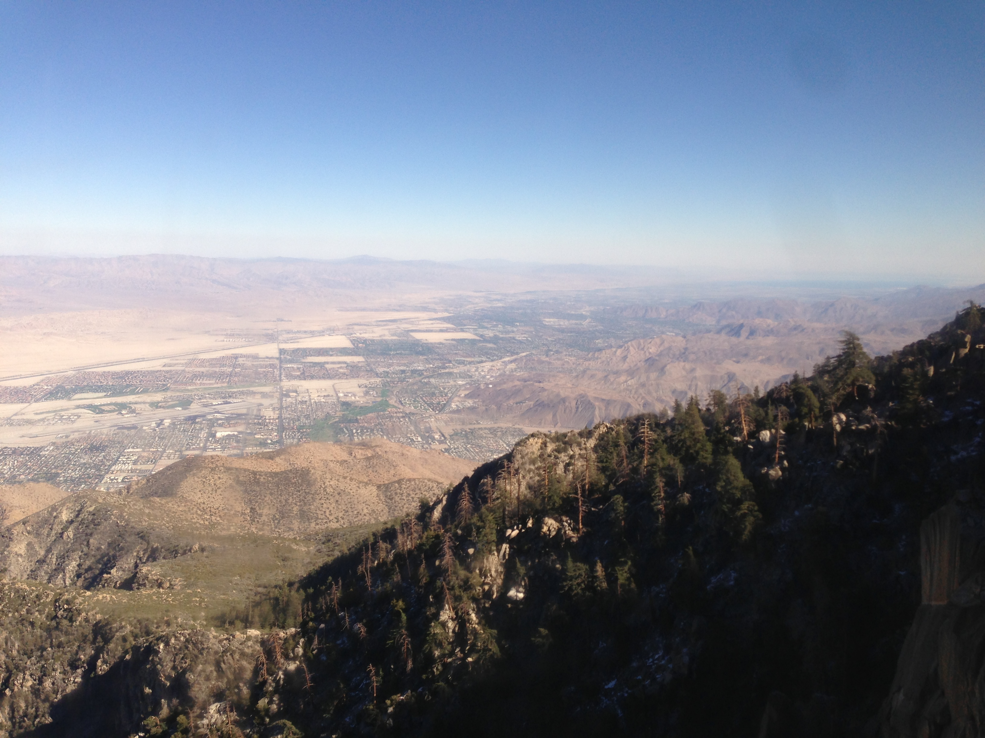 View over Palm Springs from the top of Aerial Tramway